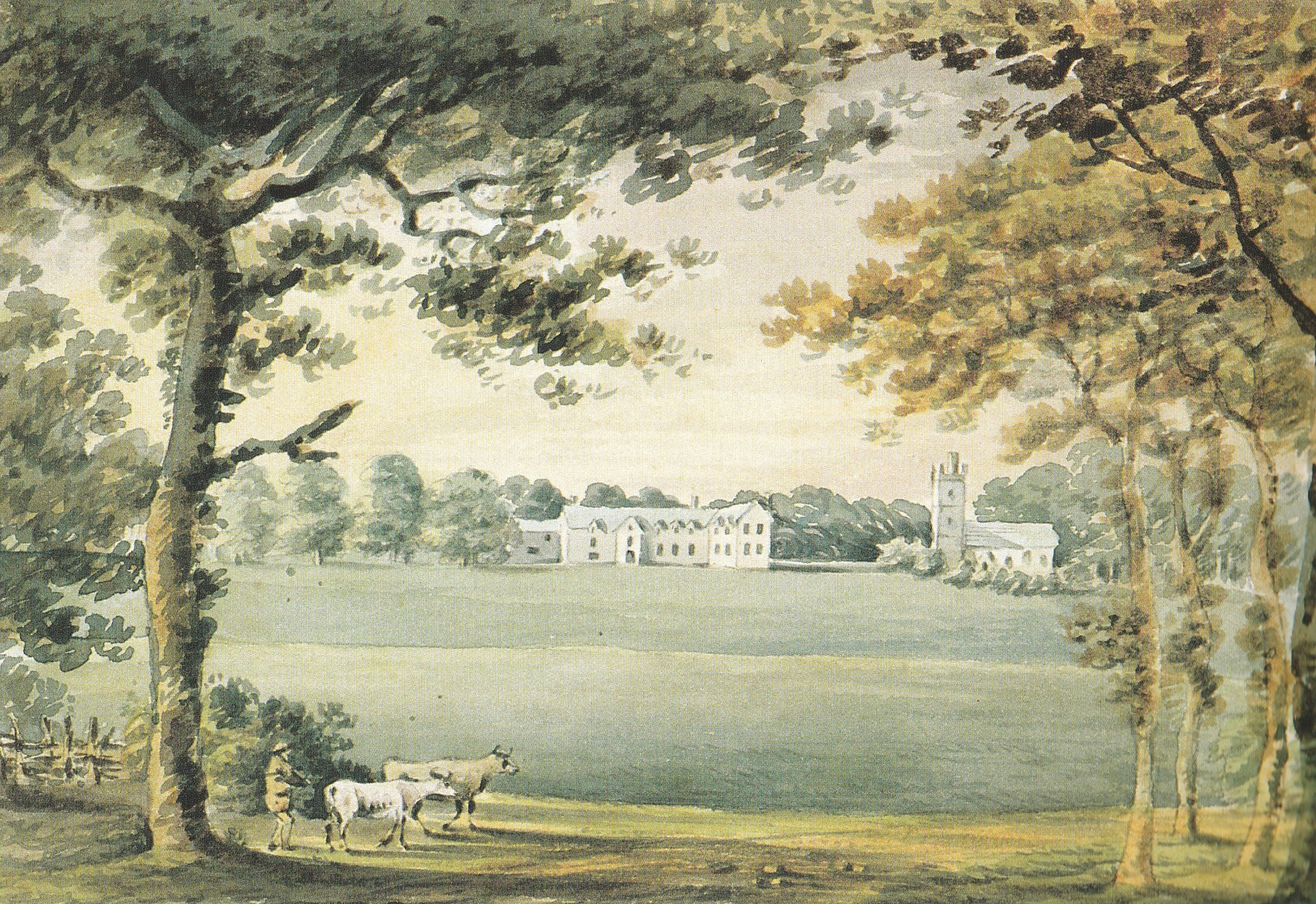 1797 watercolour of Buckland Filleigh House, Devon (south front), by Rev. John Swete (d.1821). Collection of Devon Record Office, ref: DRO, 564M/F11/81. The house burned down in 1798 and was rebuilt circa 1810 in the neo-classical style, which building survives today.